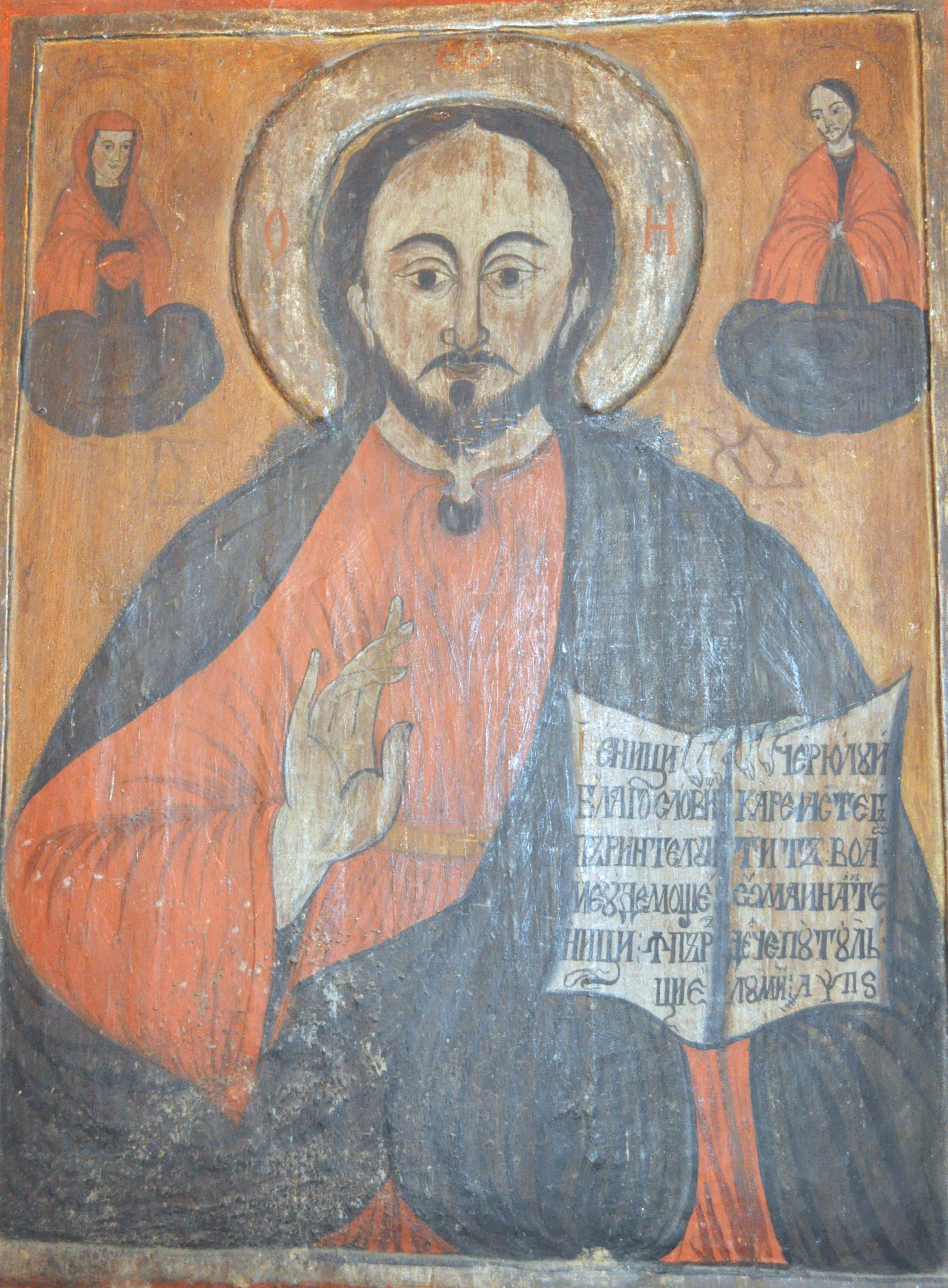 Old icon that belonged to the wooden church in Muncel, Cluj county, Romania